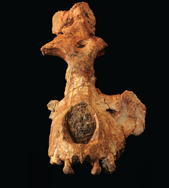 Frontal view of Saadanius hijazensis (holotype SGS-UM 2009-002).